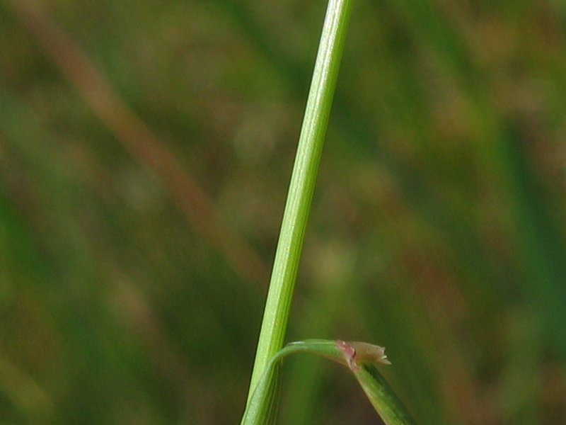 Rotes Straußgras Agrostis capillaris (A. tenuis), Zingst